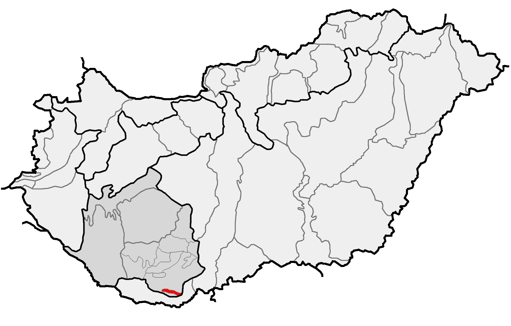 Location of geographical microregion of Villányi-hegység (red) and macroregion of Dunántúli-dombság (gray) within subdivisions of Hungary.